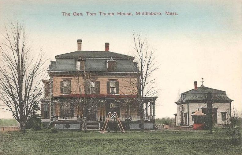 The General Tom Thumb House, Middleborough, Massachusetts